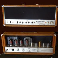 Dumbleland Amplifer made by Howard Dumble